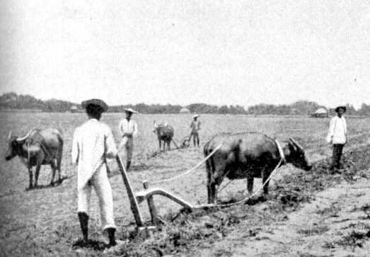 Philippine farmers plowing with oxen in Pampanga around 1900 Kapampangan: Metung a ortelanung sasarul king Pampanga kanitang manga dekadang 1900